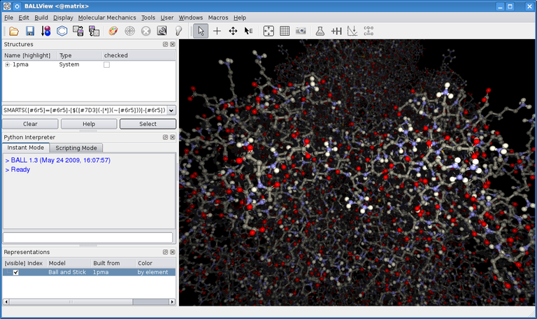 BALLView rendering pdb structure 1PMA with real time ray tracing